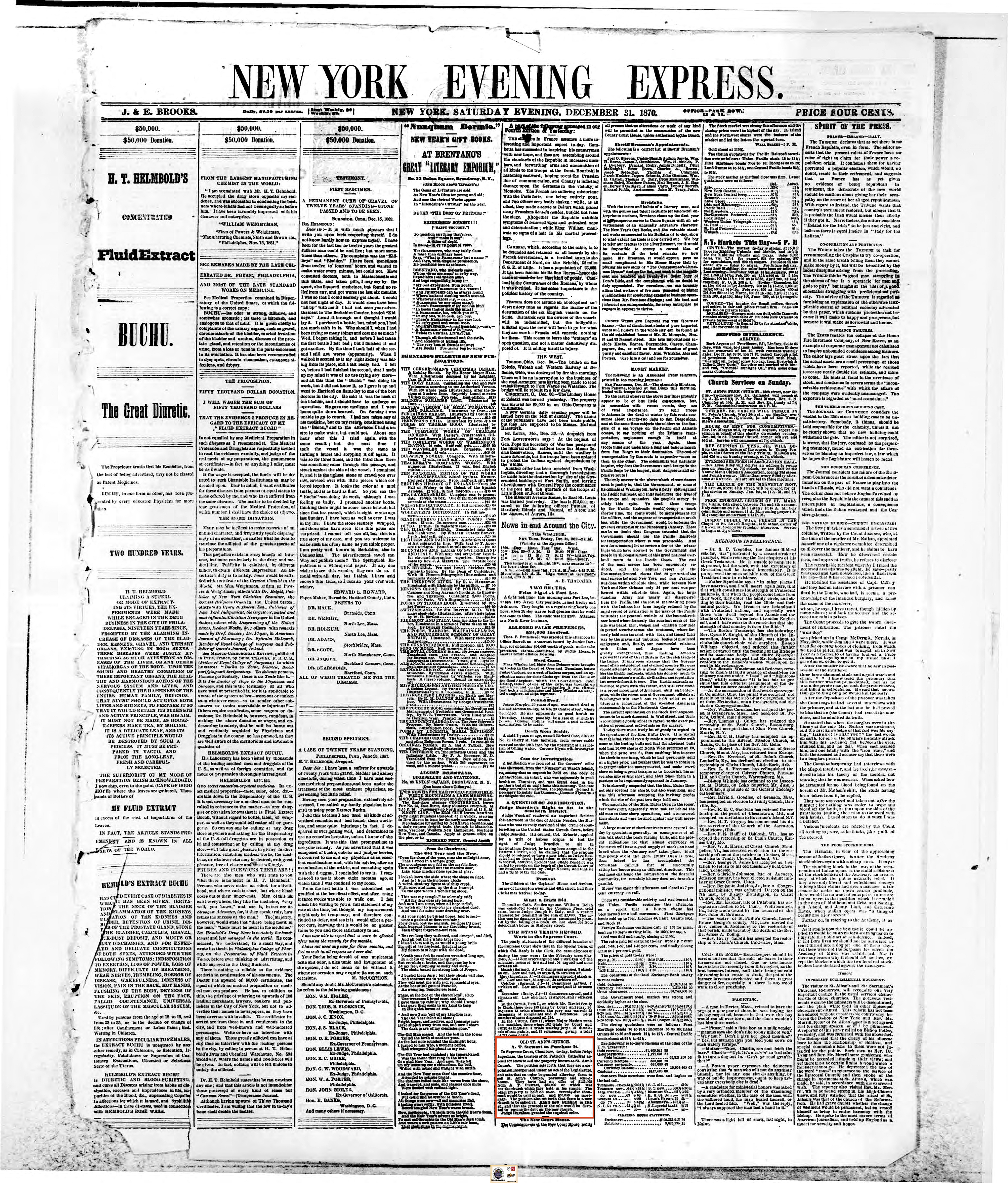 "Old St. Ann’s Church. A. T. Stewart to Purchase It." New York Evening Express. Saturday, December 31, 1870. p.1. col.5. This church later became a theater, under various names.